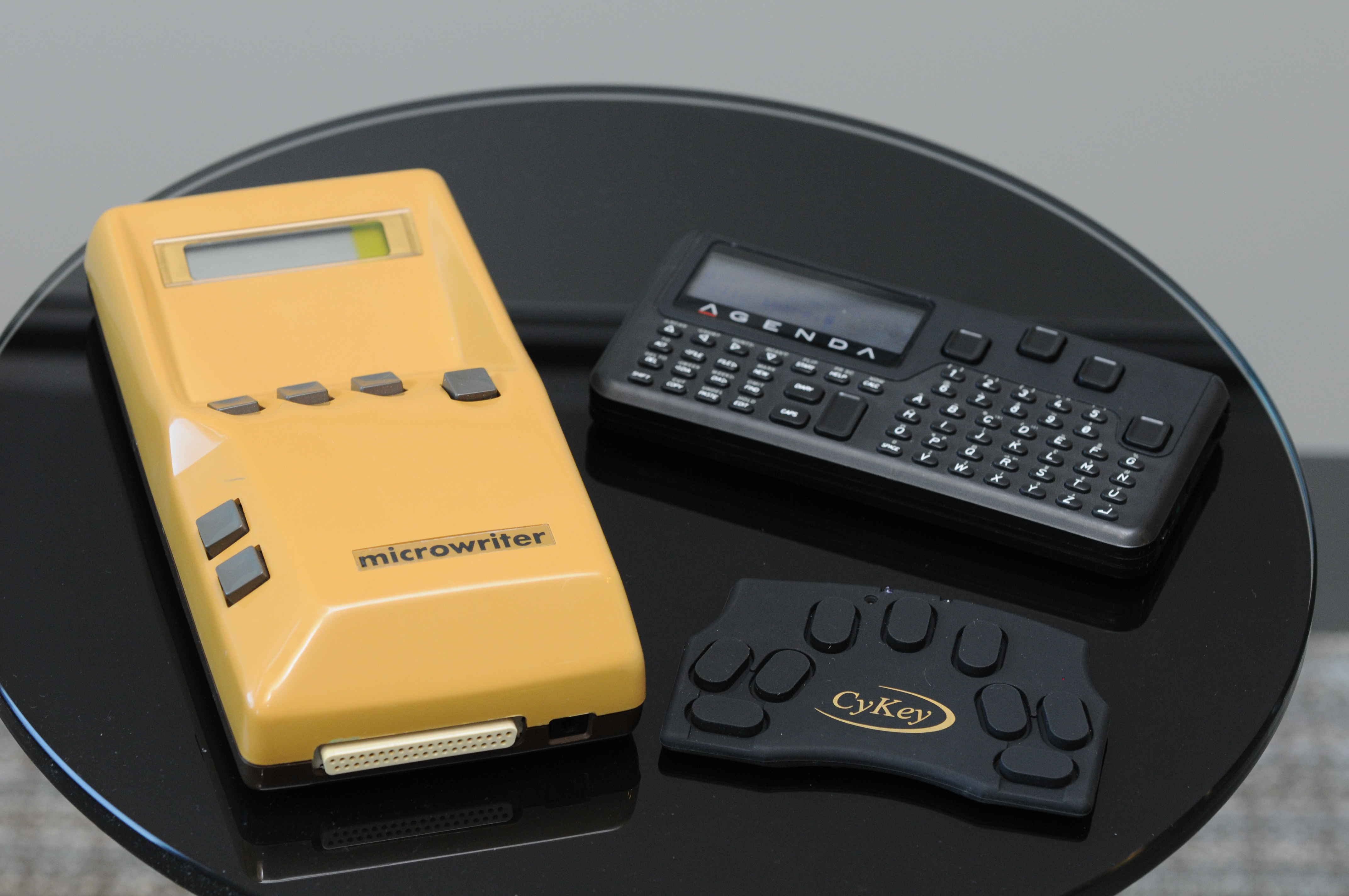 Three input devices with chorded keyboards from Bellaire Electronics: the MicroWriter (1978), MicroWriter AgendA (1989), and CyKey (2001?). From the private collection of computer scientist Bill Buxton, taken at Microsoft Research Redmond outside his office.